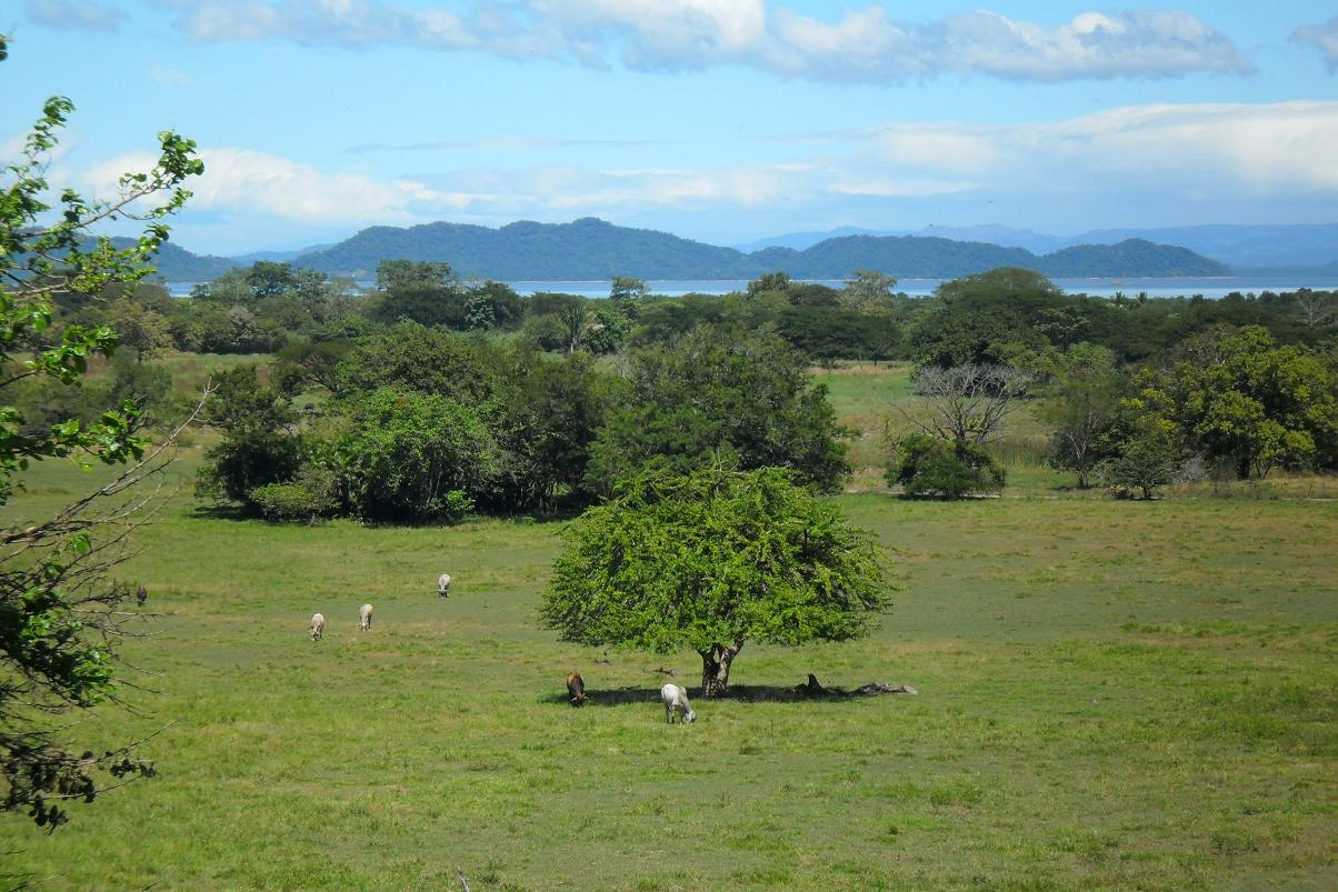 Landscape of southeastern Nicoya Peninsula, Puntarenas Province, western Costa Rica.